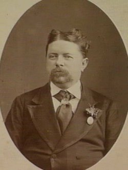 James George Beaney (1828 - 1891) whose bequest to the City of Canterbury allowed the building of the Beaney Institute, or Royal Museum and Art Gallery.